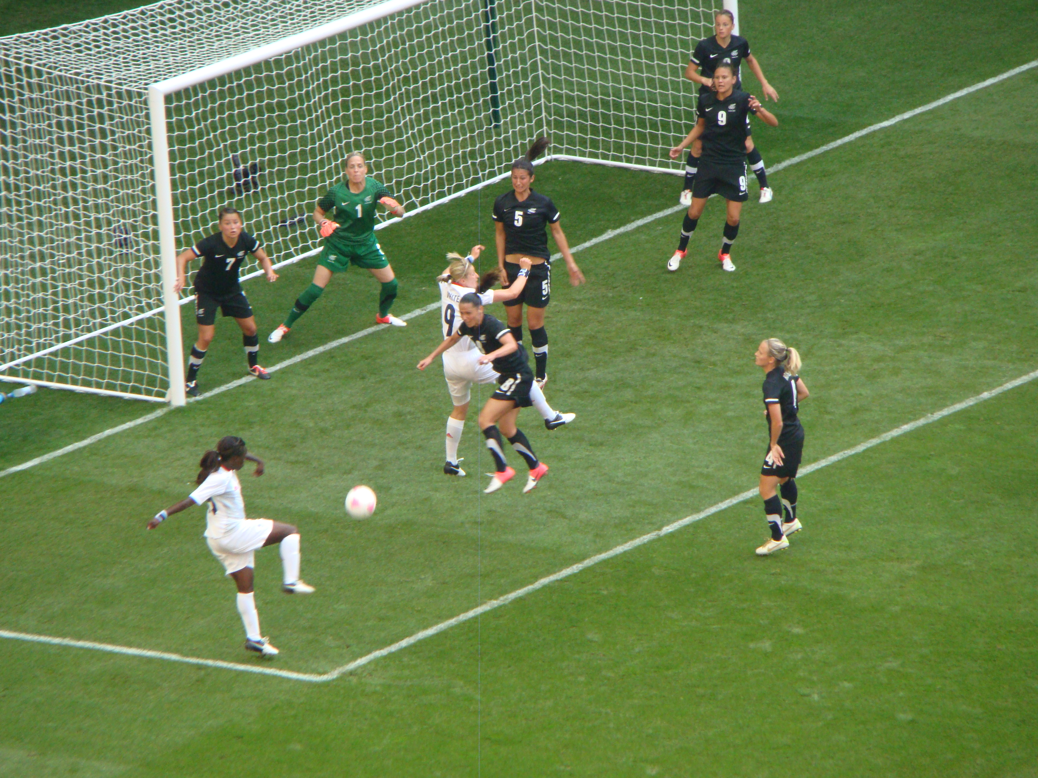 GB player taking a shot